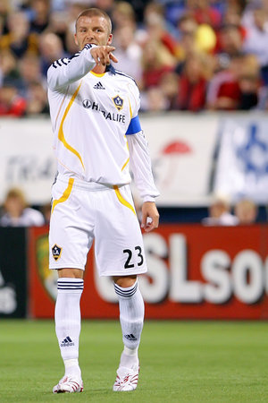 David Beckham, LA Galaxy captain and midfielder, directs players before a Galaxy free kick in the first half of the first annual COPA Minnesota benefit game between the LA Galaxy and the Minnesota Thunder Nov. 11, 2007. Hubert H. Humphrey Metrodome